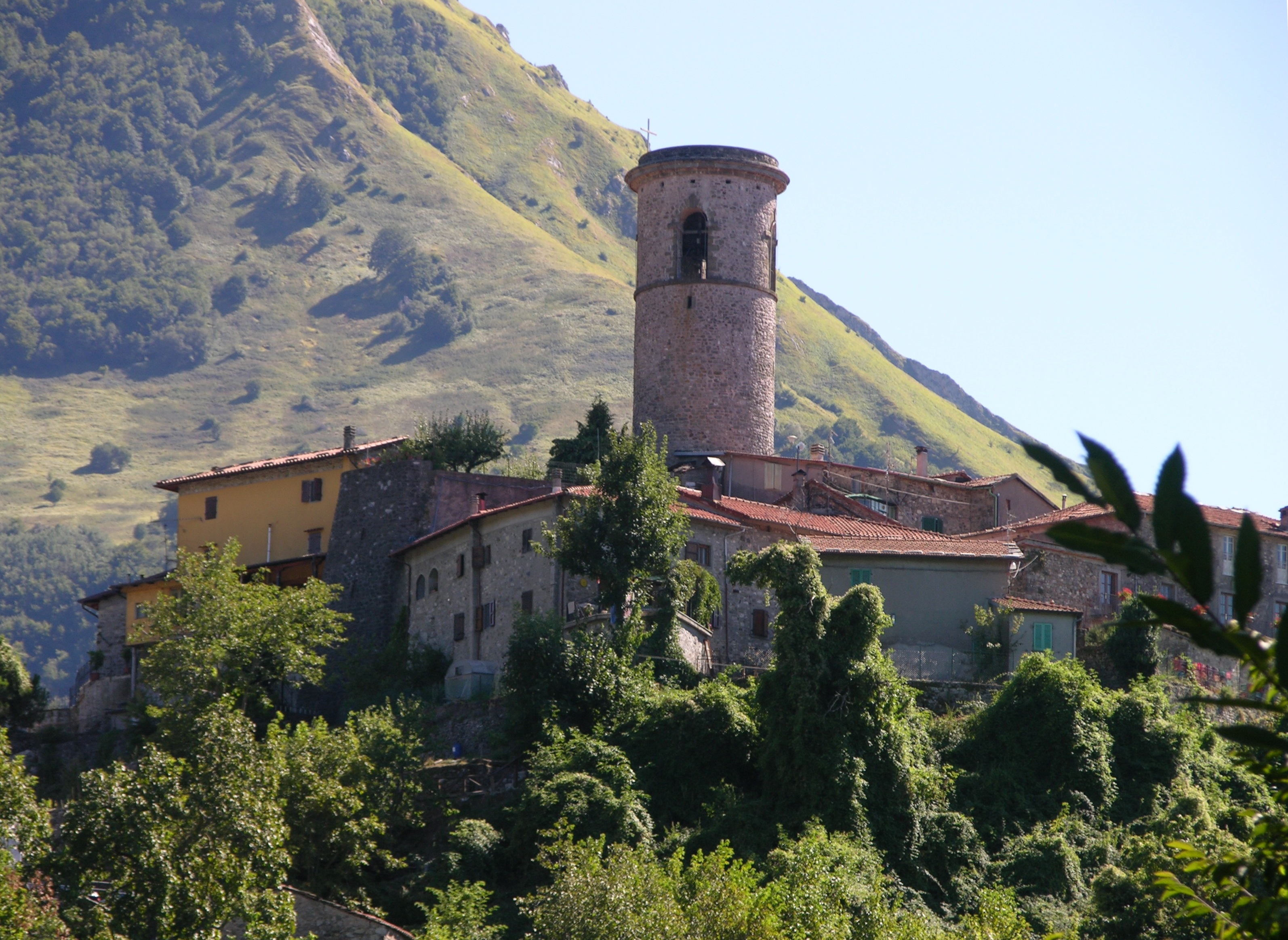 Minucciano (Lucca)